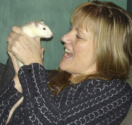 Norwegian author Marit Nicolaysen .